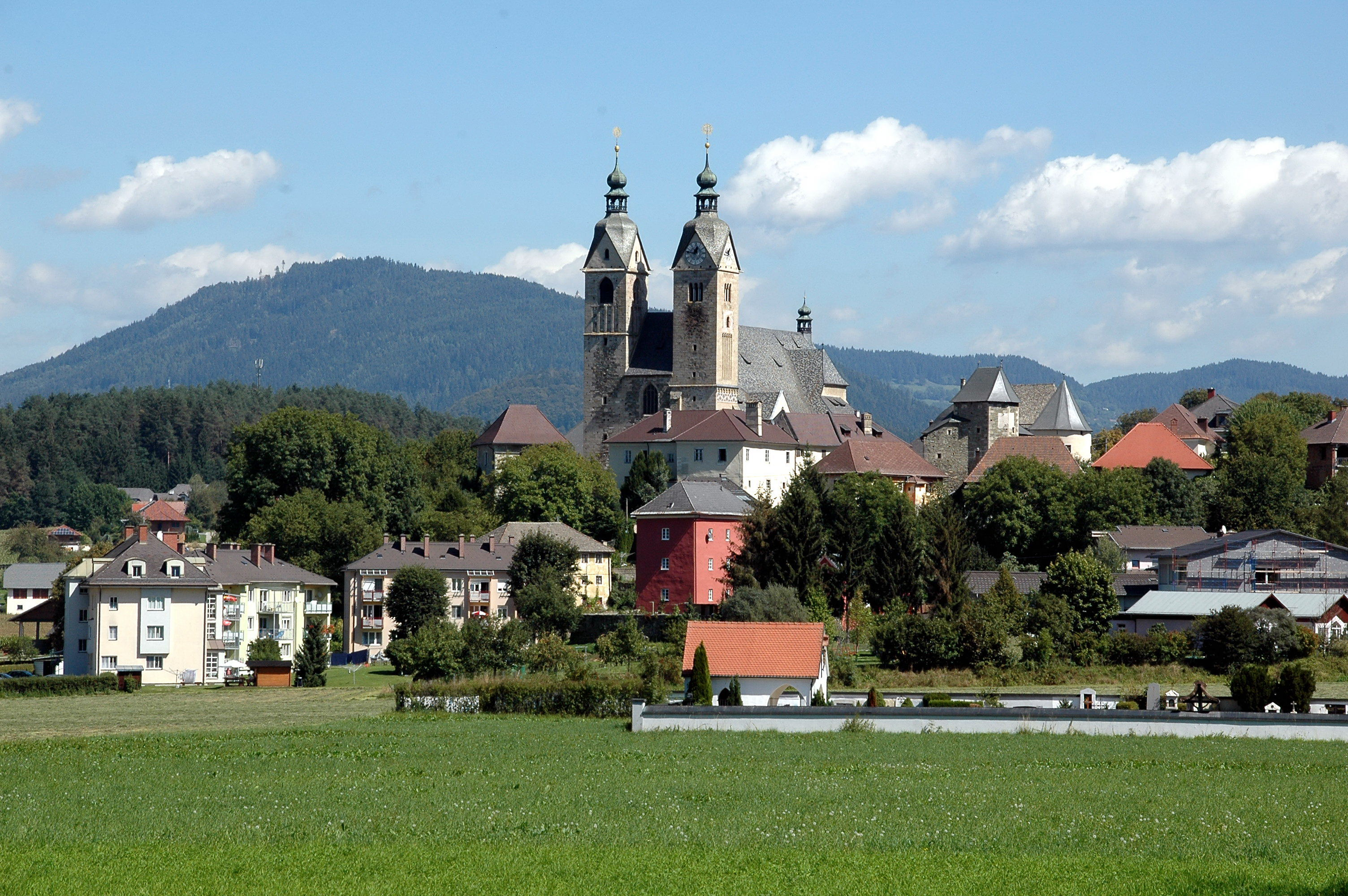 Maria Saal, Carinthia, Austria